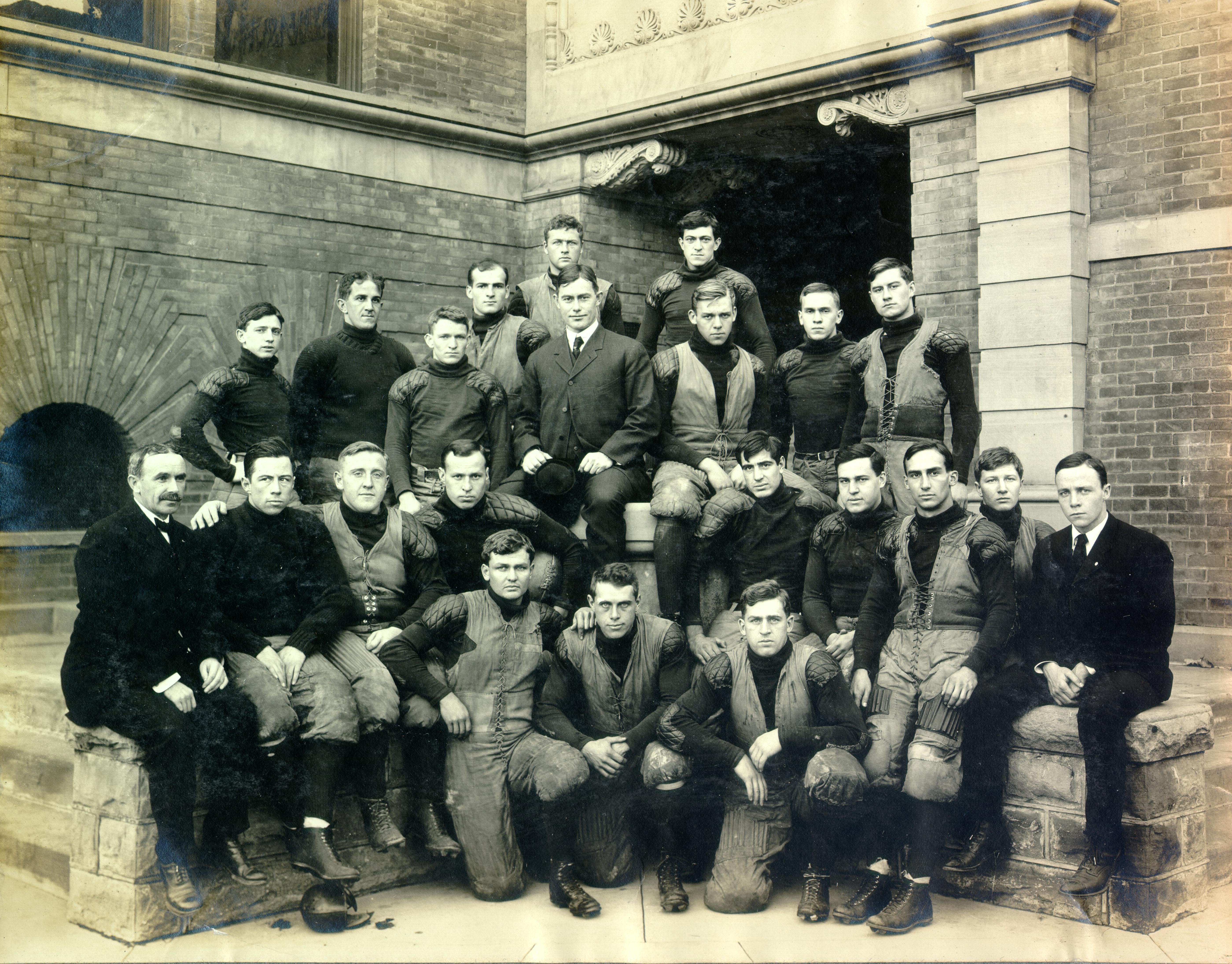 "The 1906 Football Team and Substitutes" Front row: Magoffin, Workman, Newton Second row: Fitzpatrick, Hammond, Graham, Curtis, Loell, Clement, Rumney, Whitmire, Hull (mgr) Third row: Wheeler, Eyke, Bishop, Morgan, Yost, Garrels, Wright, Embs Back row: Chandler, Steckle